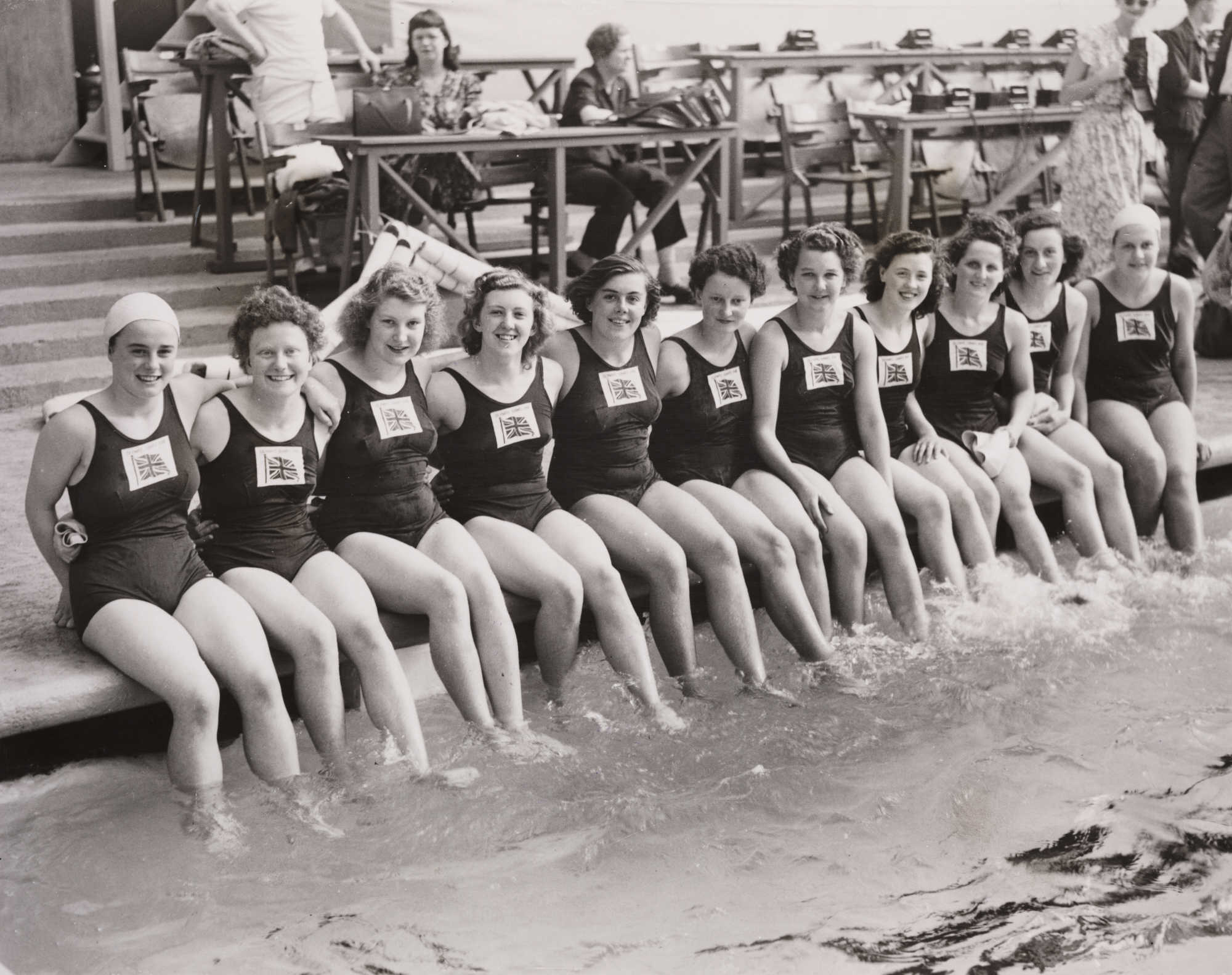 With temperatures around ninety degrees, the members of the British Women’s Olympic swimming team kept cool in the best manner possible on the day before the official opening of the Olympic Games. Daily Herald Archive at the National Media Museum We're happy for you to share this digital image within the spirit of The Commons. Certain restrictions on high quality reproductions of the original physical version of apply though; if you're unsure please visit the National Media Museum website. For obtaining reproductions of selected images please go to the Science and Society Picture Library.